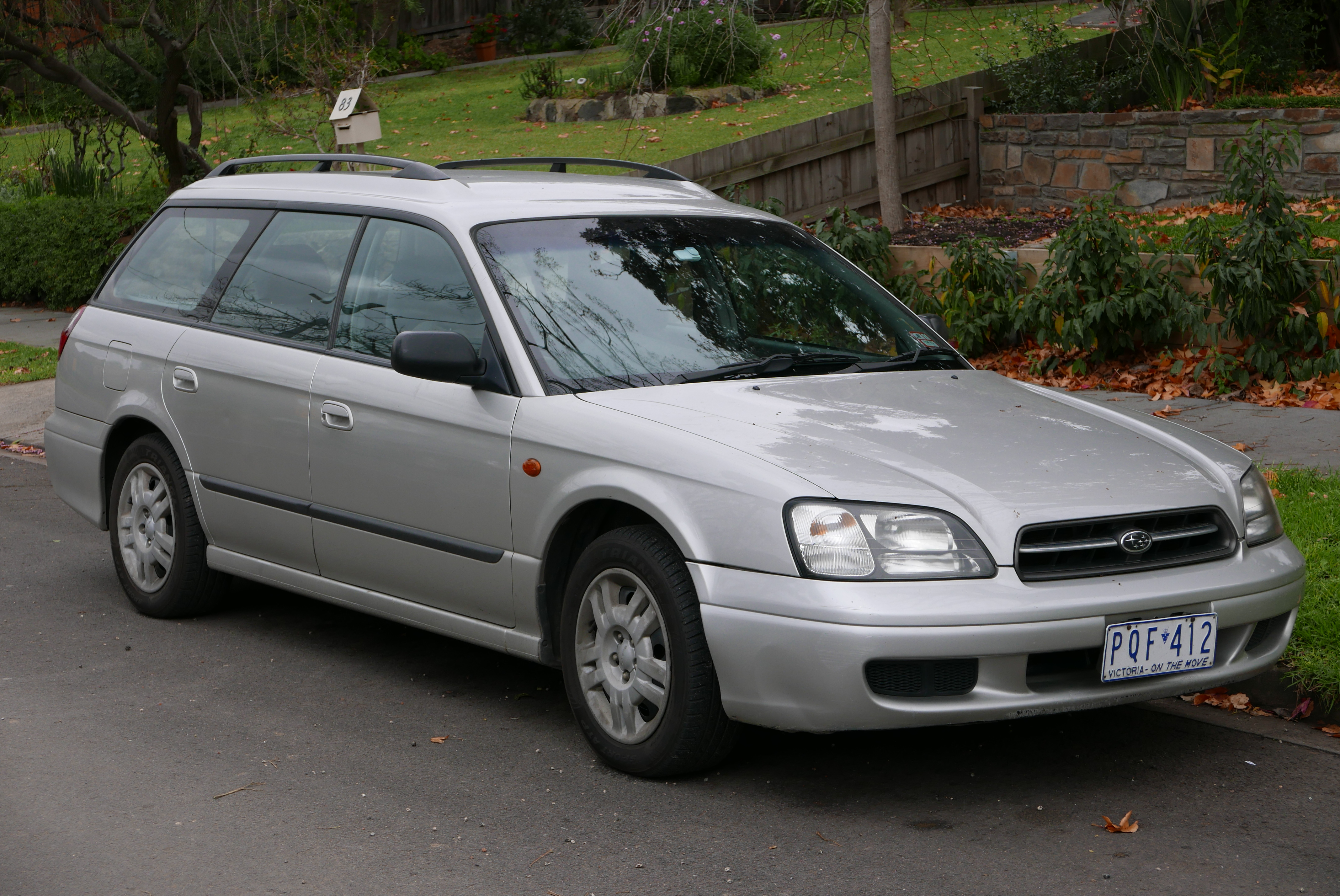 1999 Subaru Liberty (BH5 MY99) GX station wagon. Photographed in Alphington, Victoria, Australia. Vehicle registration enquiry results Jurisdiction Victoria Registration PQF412 Chassis code JF1BH5KR5XG006825 Engine code EJ20579157 Compliance date 1999-05 Year of manufacture 1999